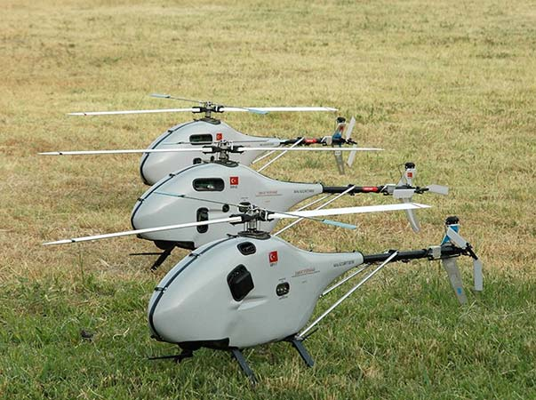 Malazgirt UAV Helicopters